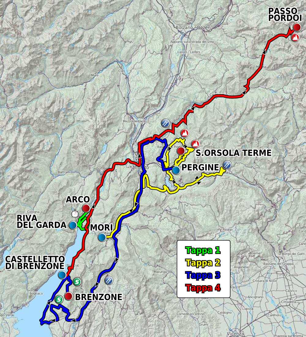 Route of the Giro del Trentino 2012